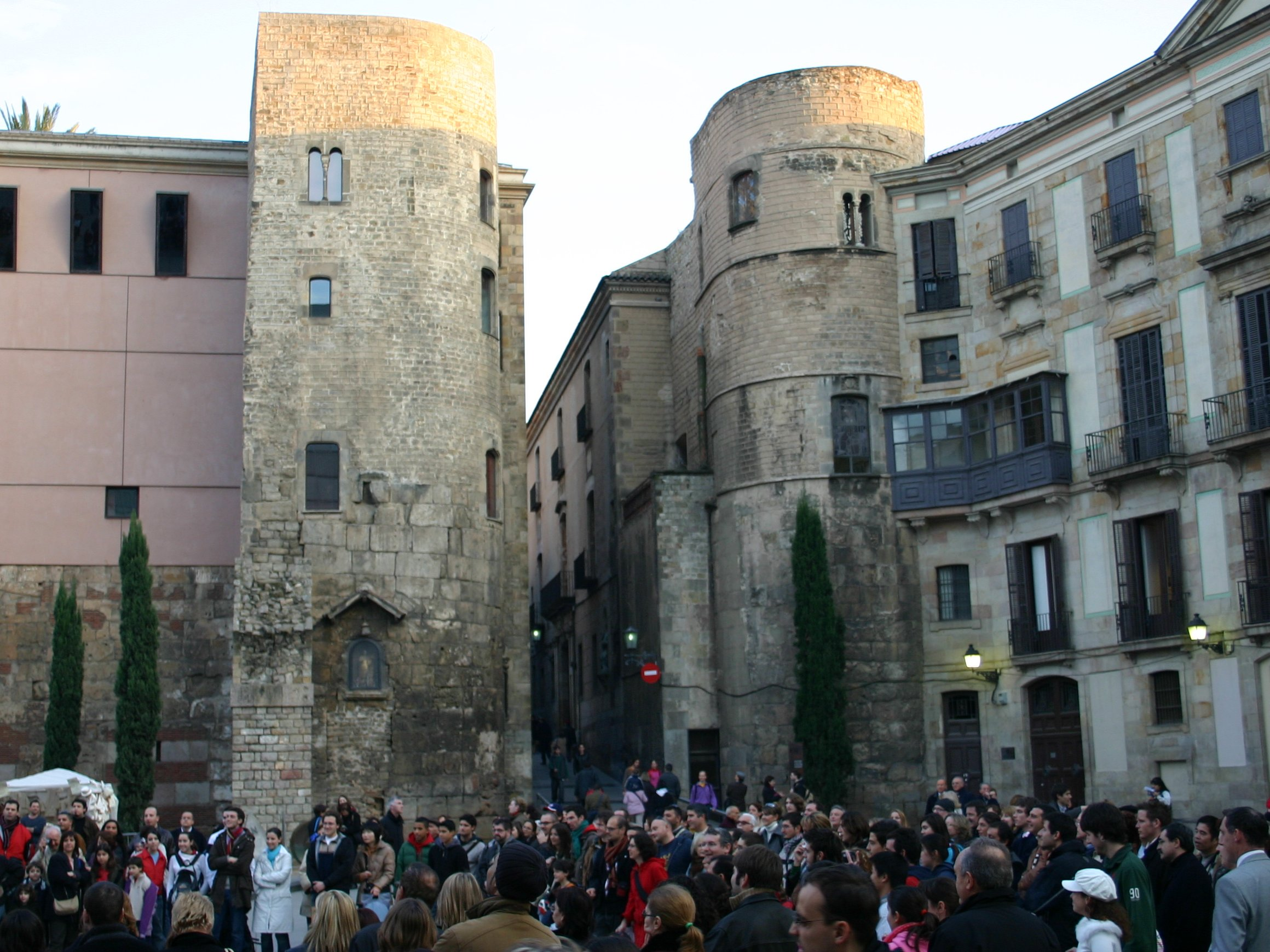 Portal del Bisbe (Barcelona)